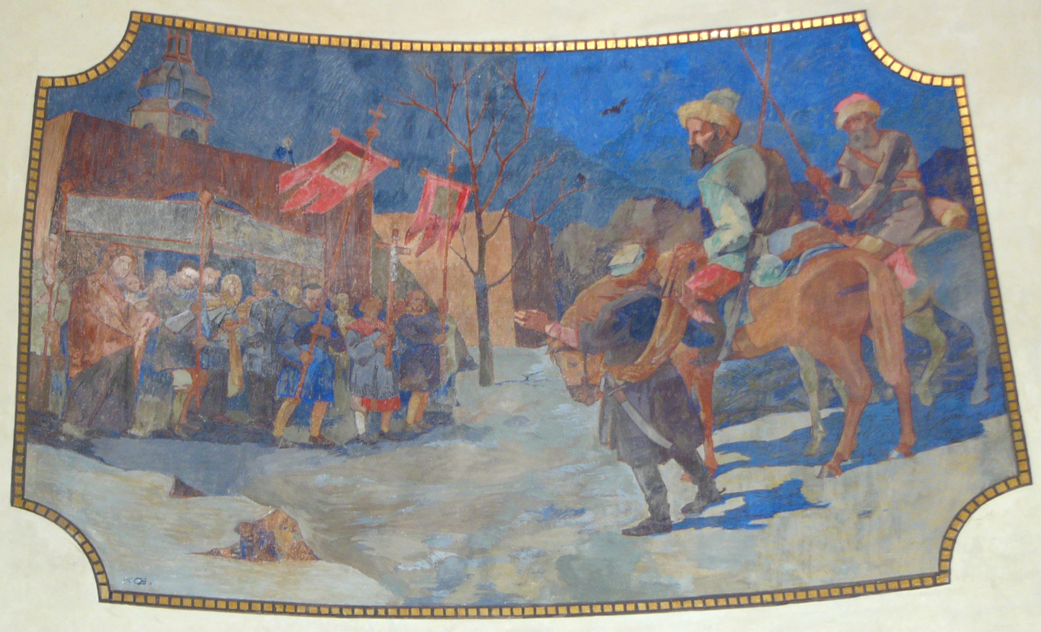 Fresco of John Sarkander in Holešov. Fresco by Jano Köhler is in St. Jan Sarkander chapel (Sarkandrova kaple) in Olomouc (Czech Republic).